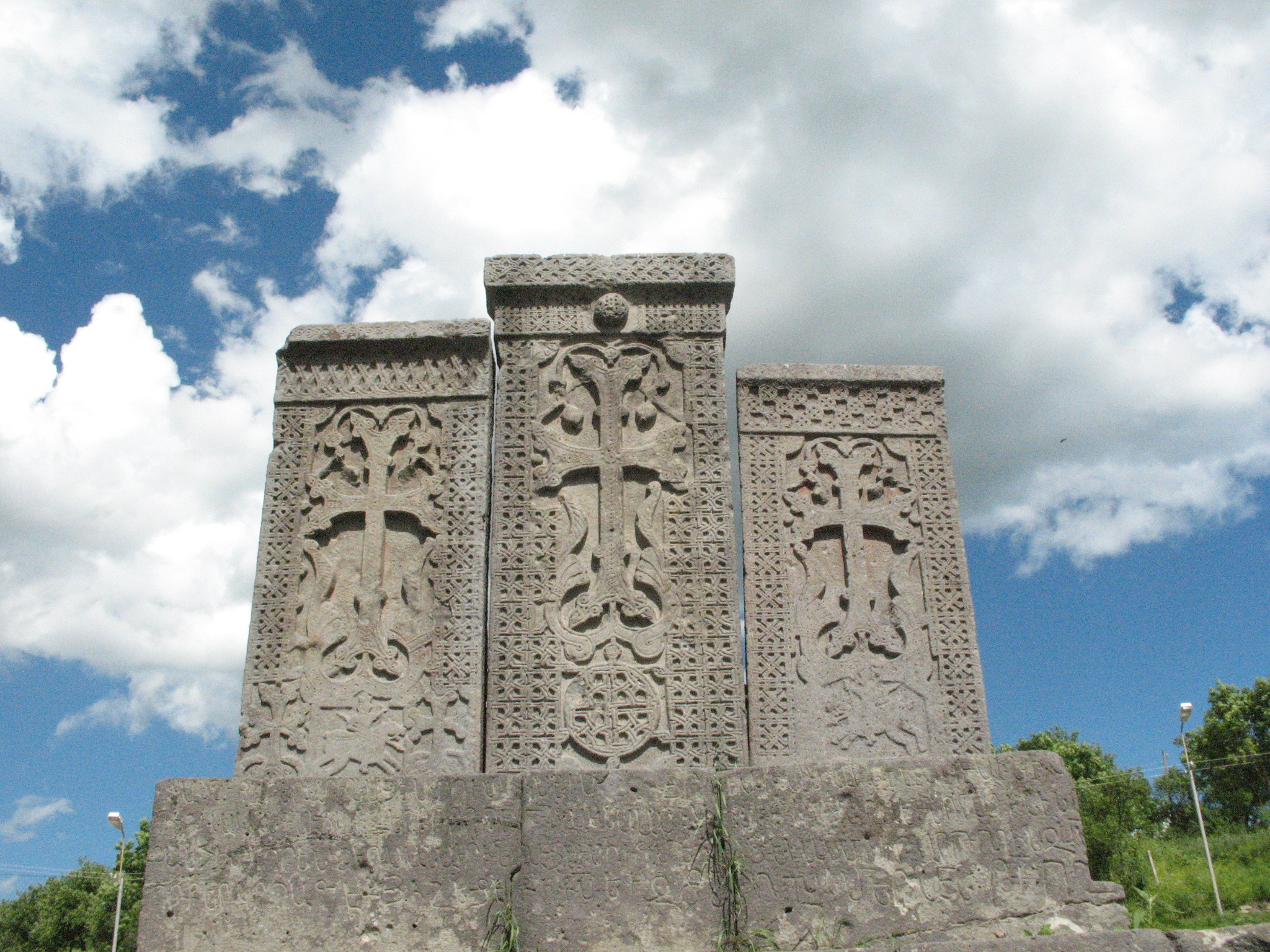 tutik ishxan